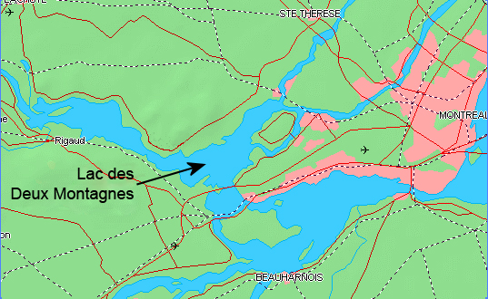 Location map of Lake of Two Mountains in Quebec, Canada.